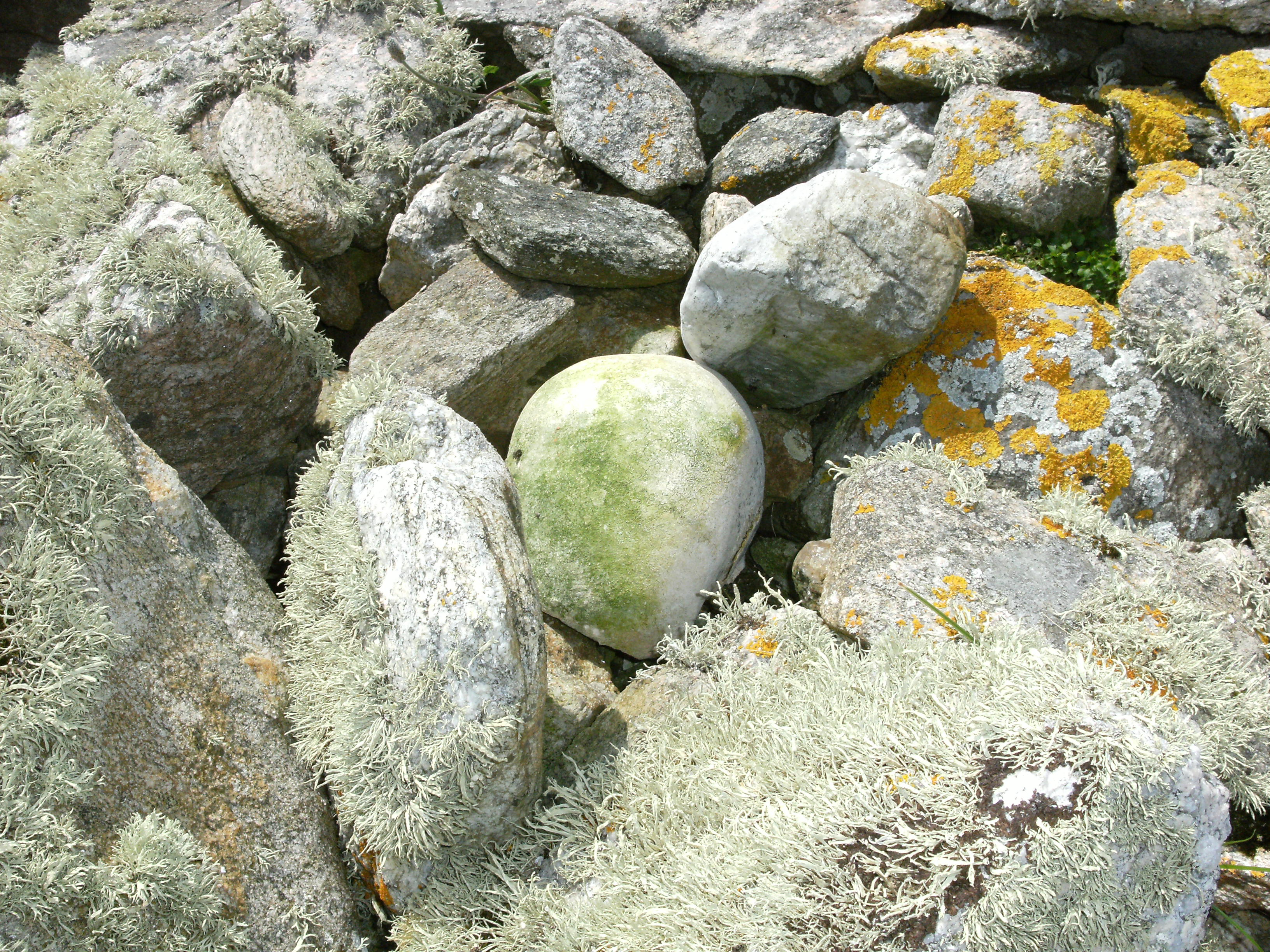 A skull amongst the stones on Inishglora Island, The Mullet, County Mayo, Ireland. Tradition says people were buried standing up here - evidence would point that way.